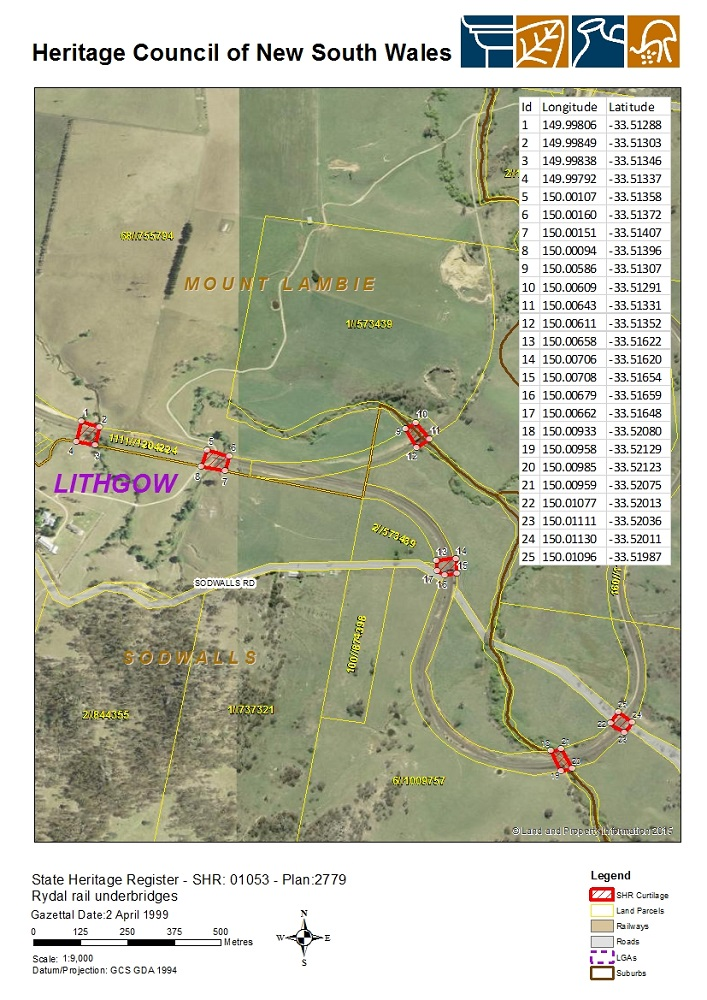 Rydal rail underbridges: SHR Plan No 2779